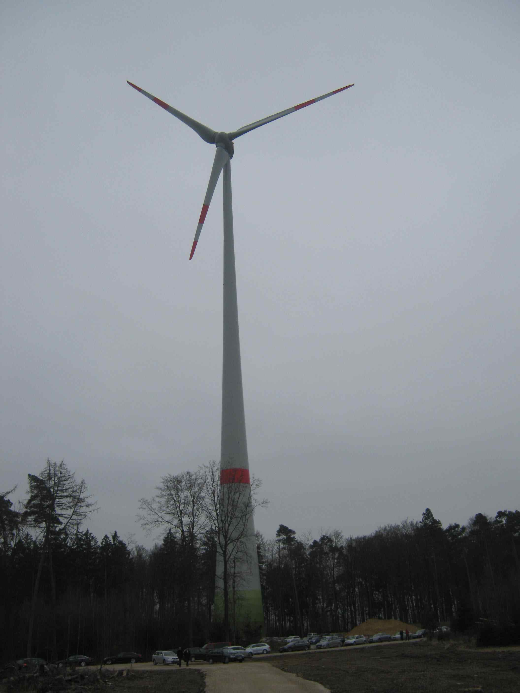 official dedication Windpark Neuerkirch March 13th 2012